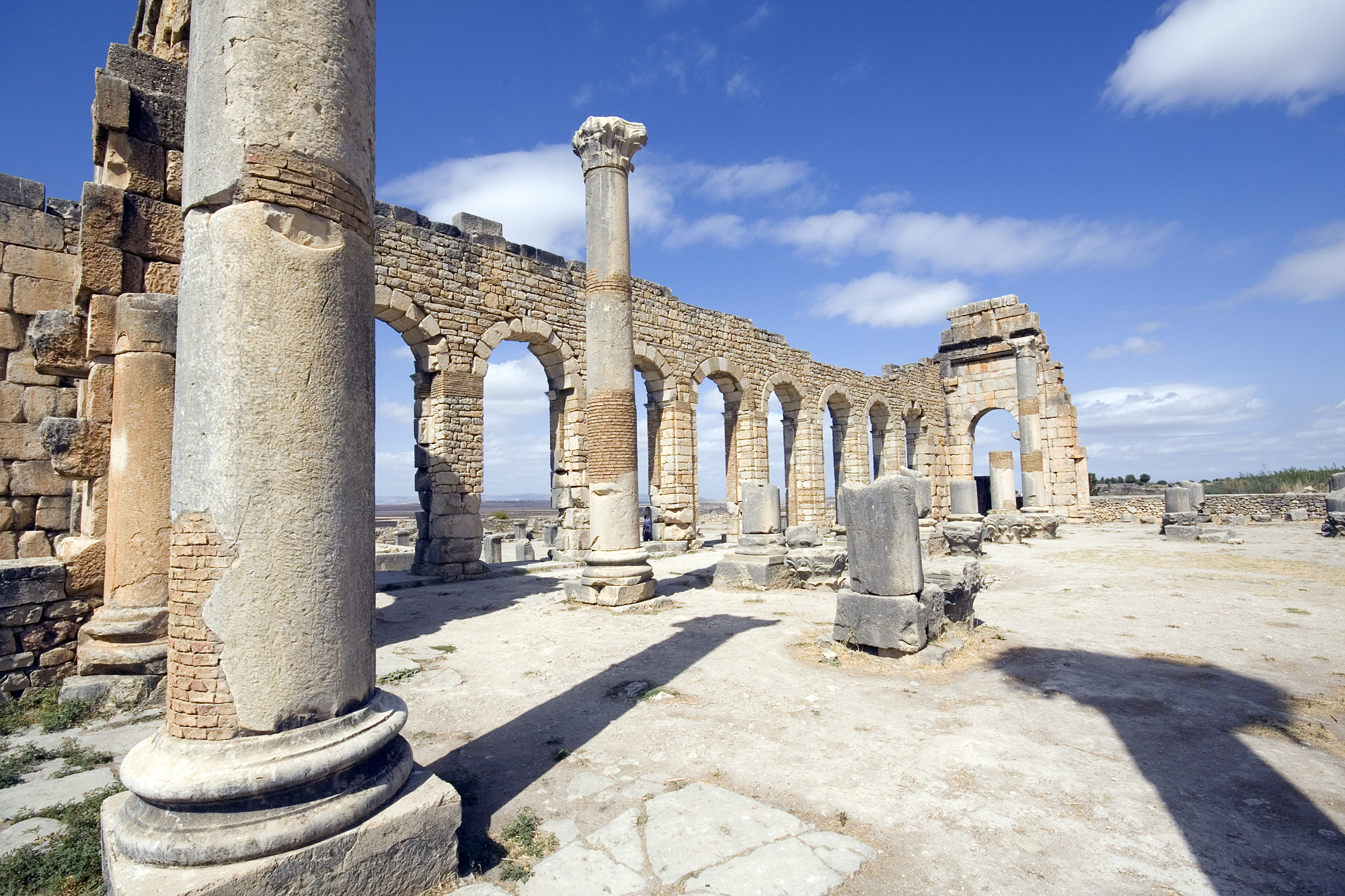 Interior view of the Basilica at Volubilis